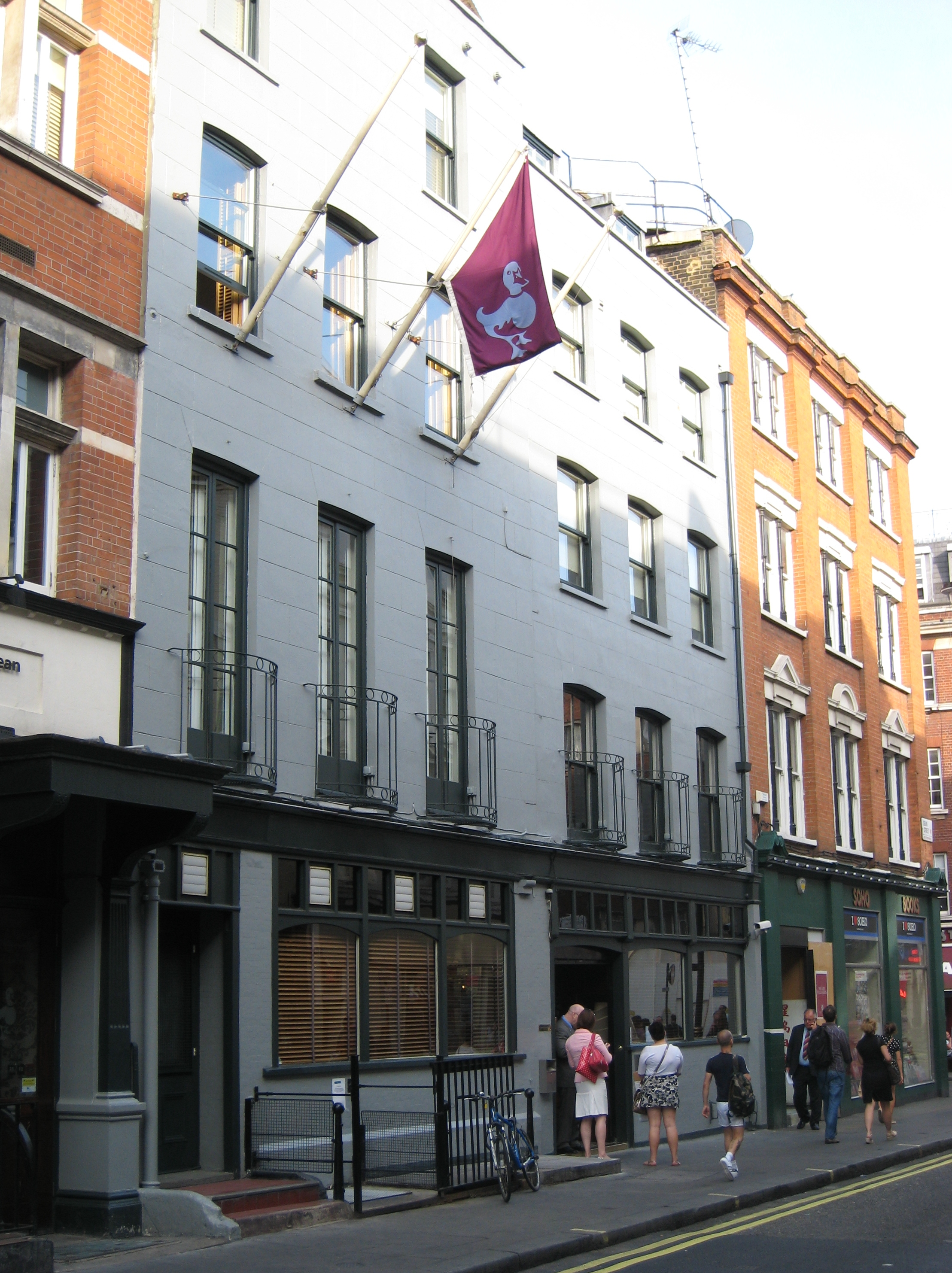 Exterior of the Groucho Club, 45 Dean St, London